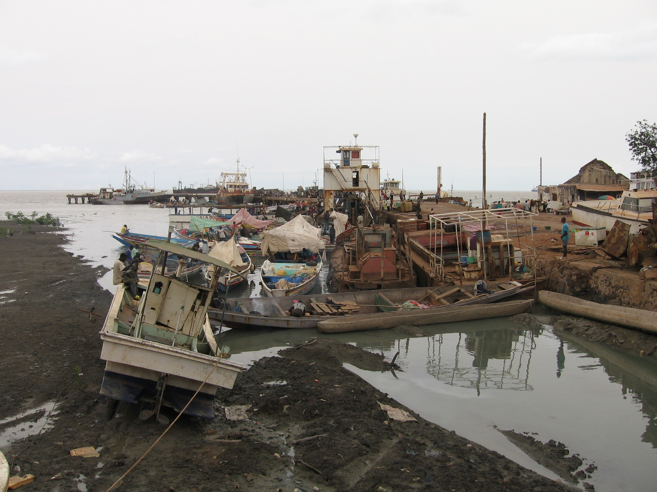 Pidjiguiti Port.